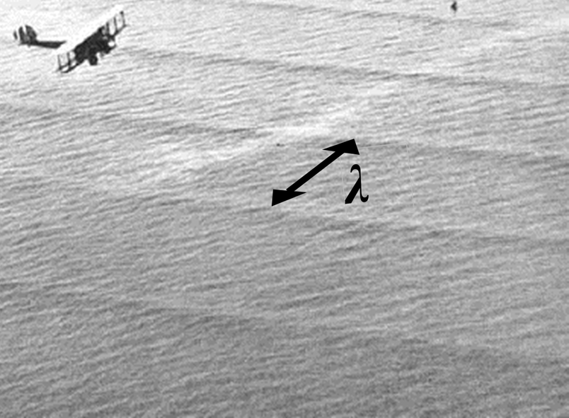 Cropped and annotated version of File:Periodic waves in shallow water.jpg